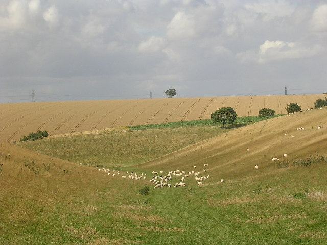 Head of Swindale, on the Yorkshire Wolds Way west of North Newbald, East Riding of Yorkshire, England.Yorkshire Wolds Way between High Hunsley and North Newbald. A lovely pastoral scene, featuring sheep on grass downland - a rare sight nowadays, but once a characteristic feature of chalkland.